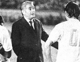 Photo of Roberto Scarone taken in Montevideo during a match of the Copa Libertadores